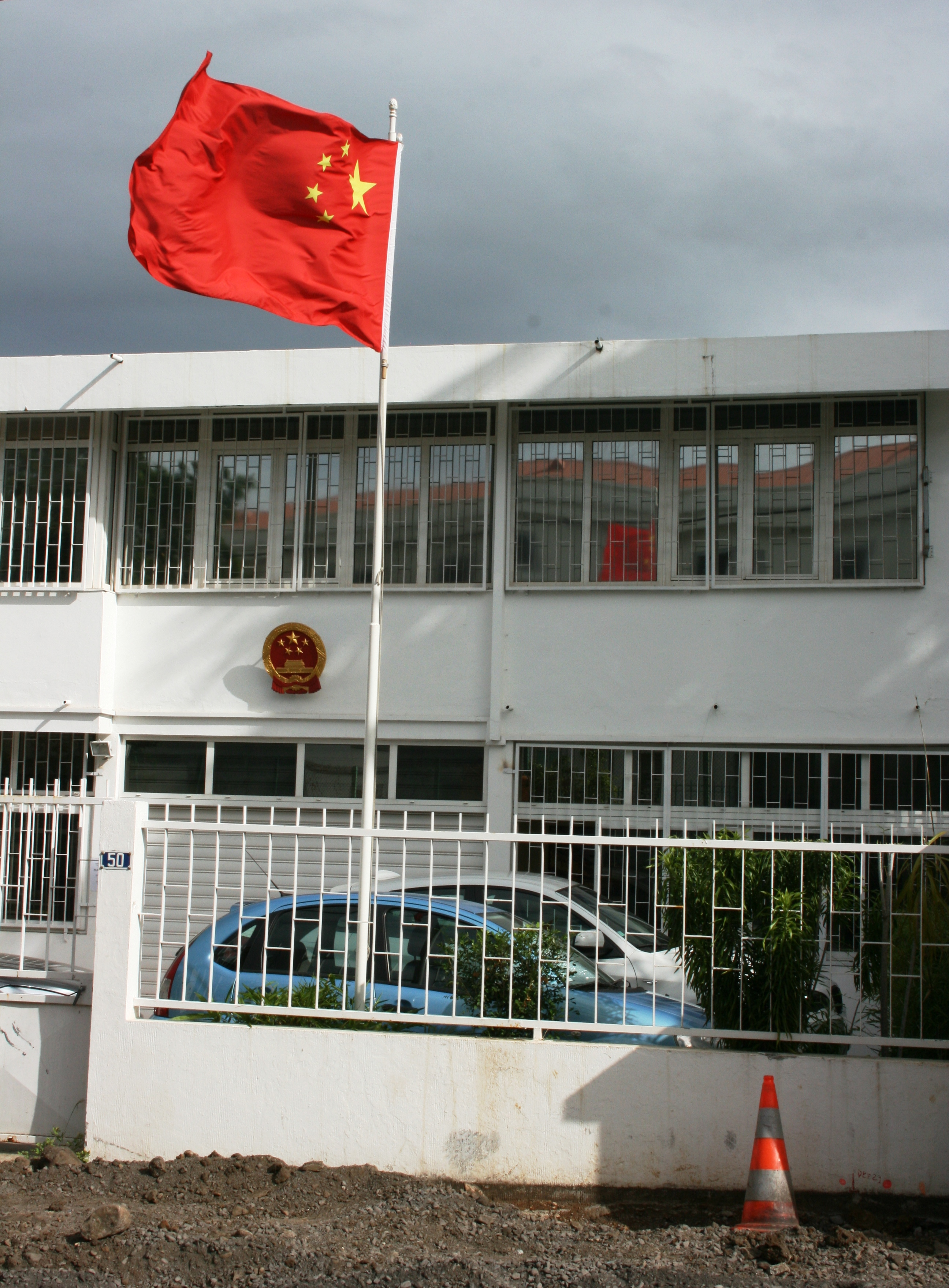 Consulate of the People's Republic of China in Saint-Denis, Réunion